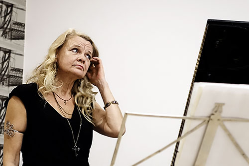 Iro Harla in Aarhus, Denamrk 2014